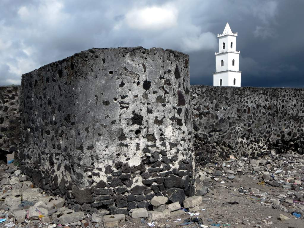 This stone wall originally built to keep out Malagasy pirates now protects Ntsaoueni on the northwest coast of Grande Comore from Indian Ocean storms. A cousin of the Prophet Mohammed is buried here.